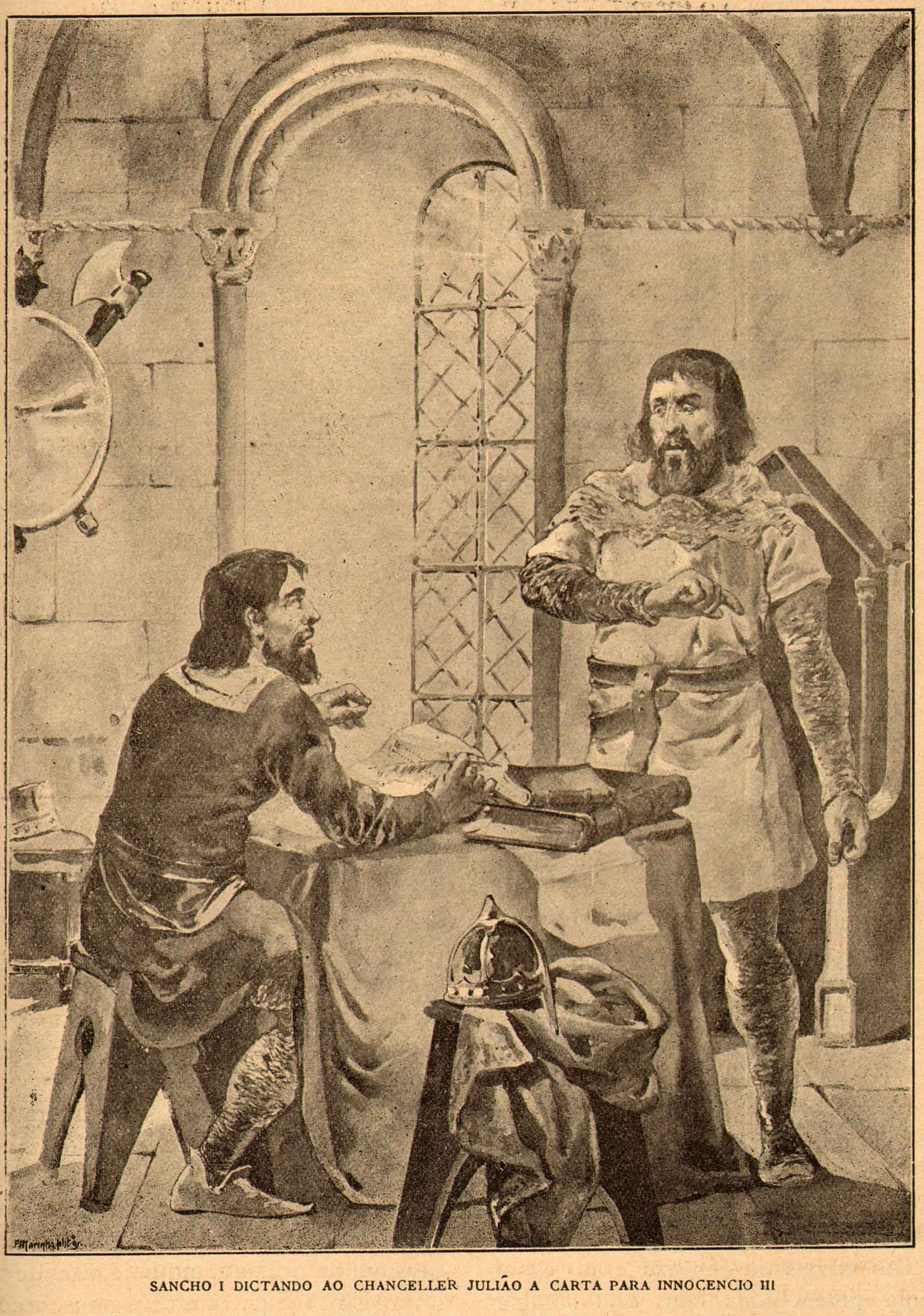 Illustration by Alfredo Roque Gameiro in the book História de Portugal, popular e ilustrada, by Manuel Pinheiro Chagas